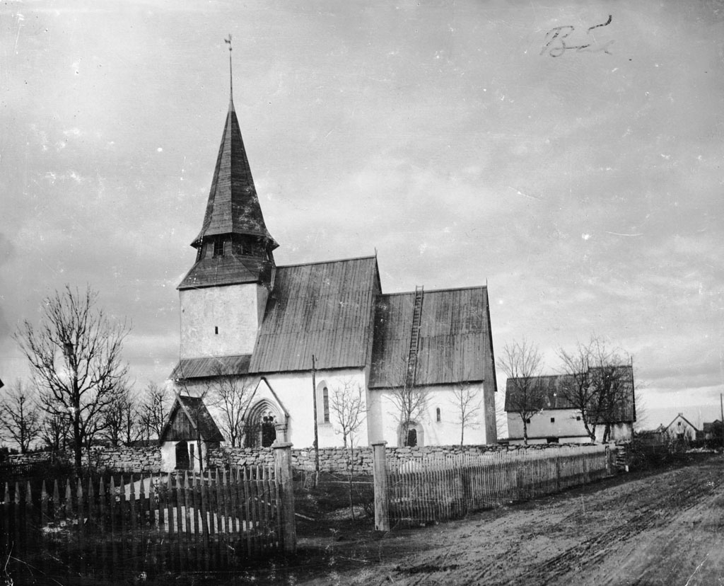 Bäl Church from the island of Gotland in the Baltic Sea. The church was built in the first half of the 1200s. View from south.